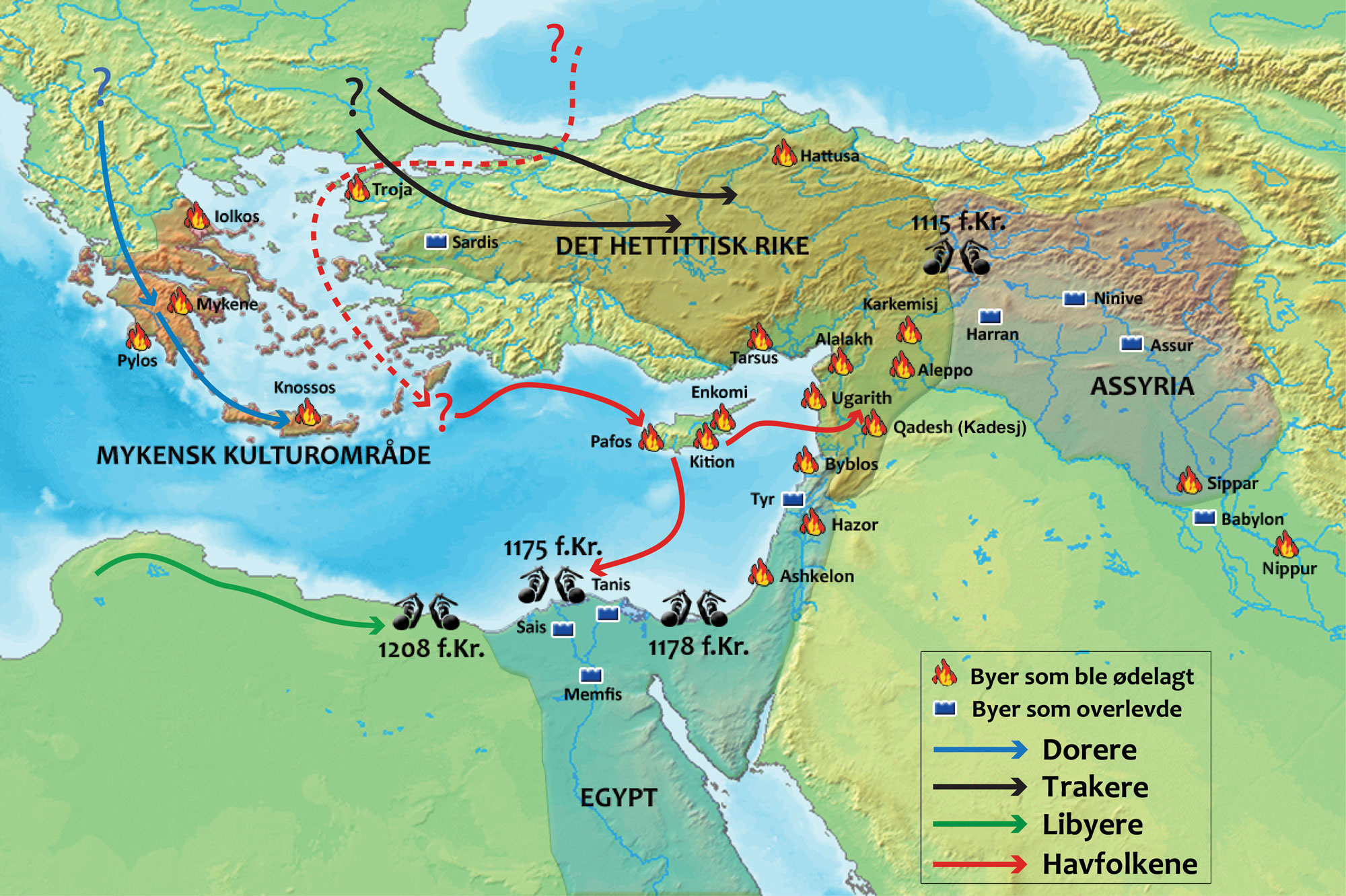 Map showing the Bronze Age collapse (conflicts and movements of people)